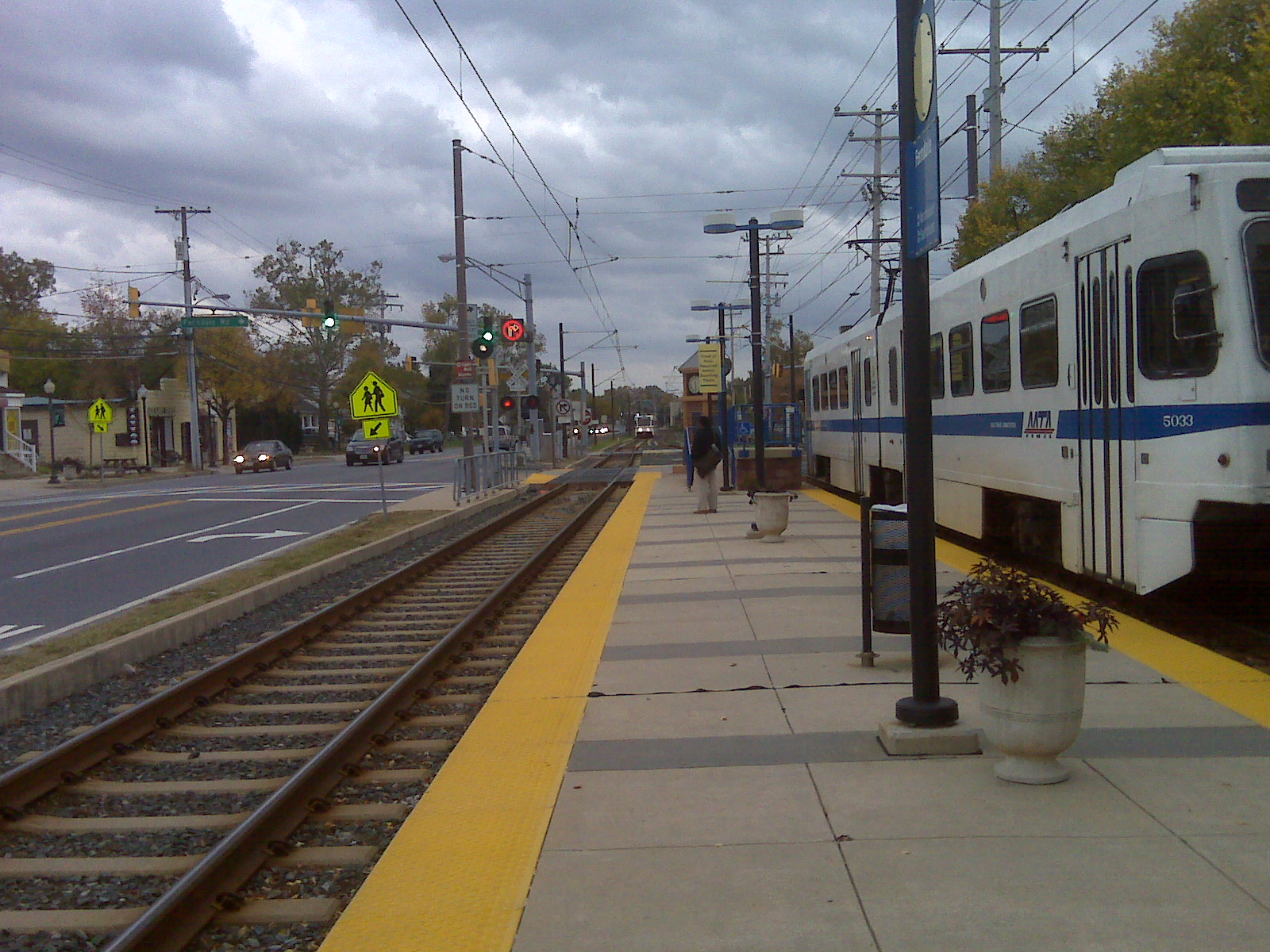 A view of the Ferndale stop on MTA Maryland's Light Rail system. The camera faces south.